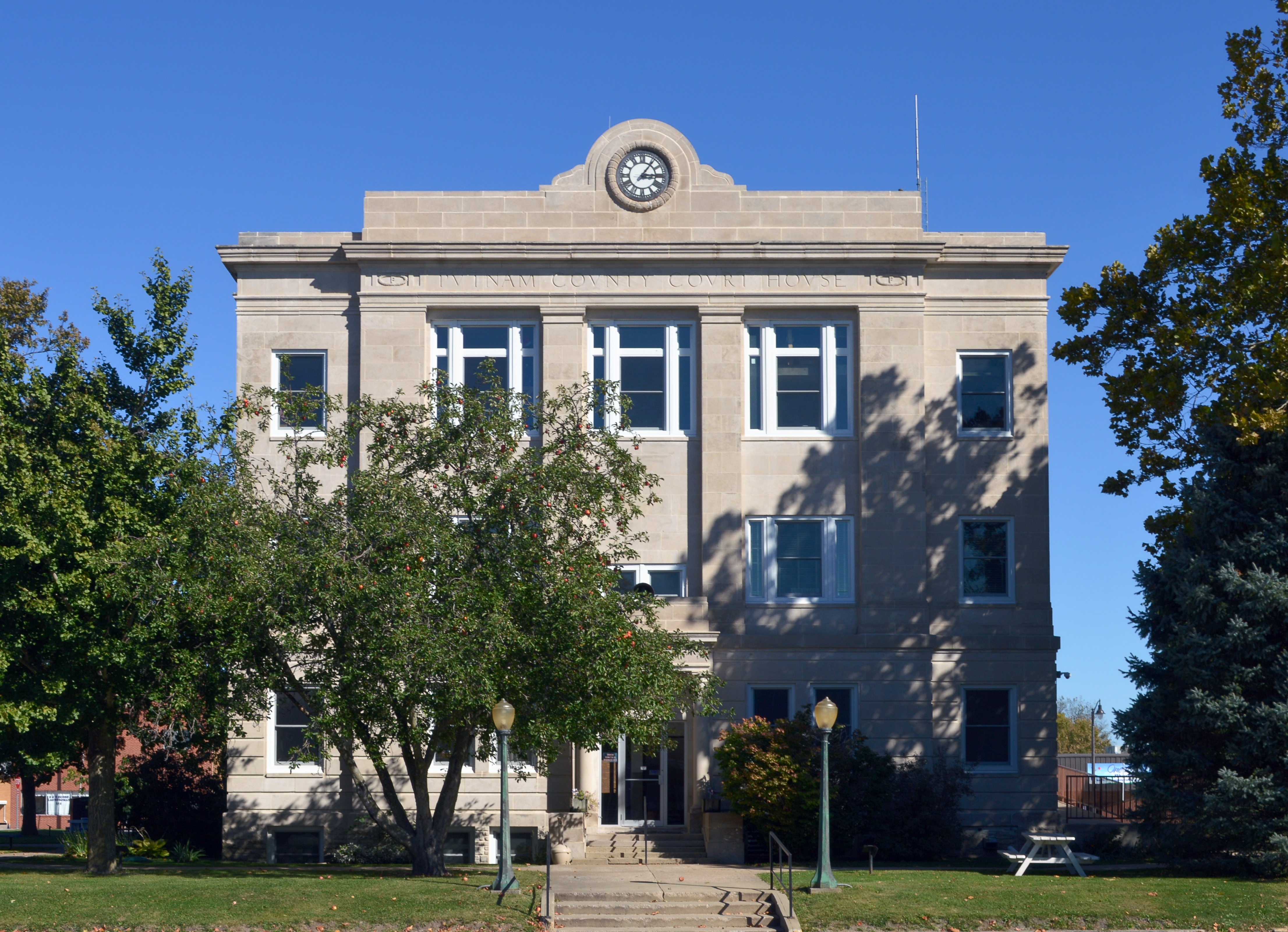 Wester facade of the Putnam County, Missouri, courthouse in Unionville, Missouri:Unionville.